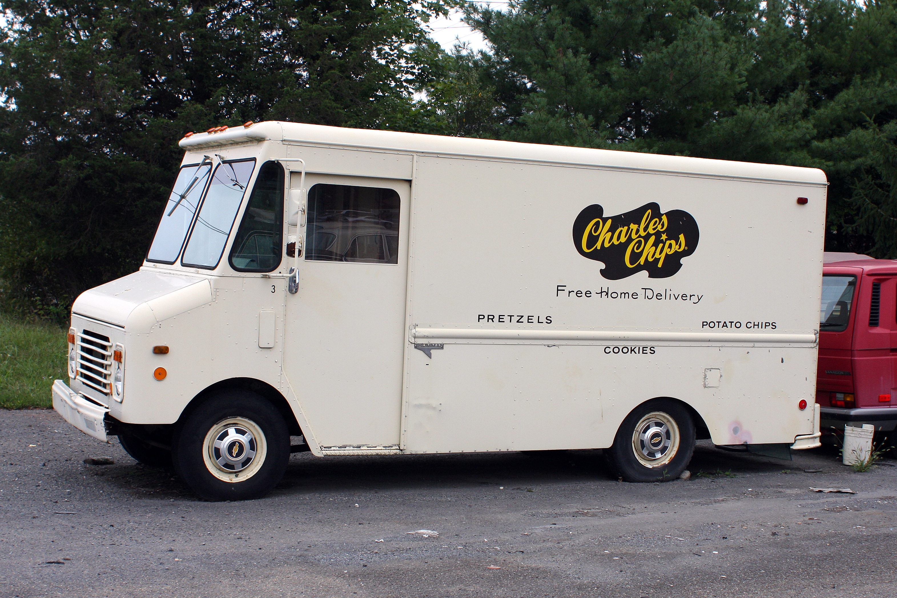 An image of a delivery van used by Charles Chips